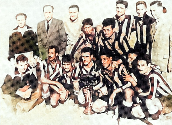 Picture of team "FC Blida", winner of "Coupe d'Afrique du Nord de football", in 1952 (with the trophy)